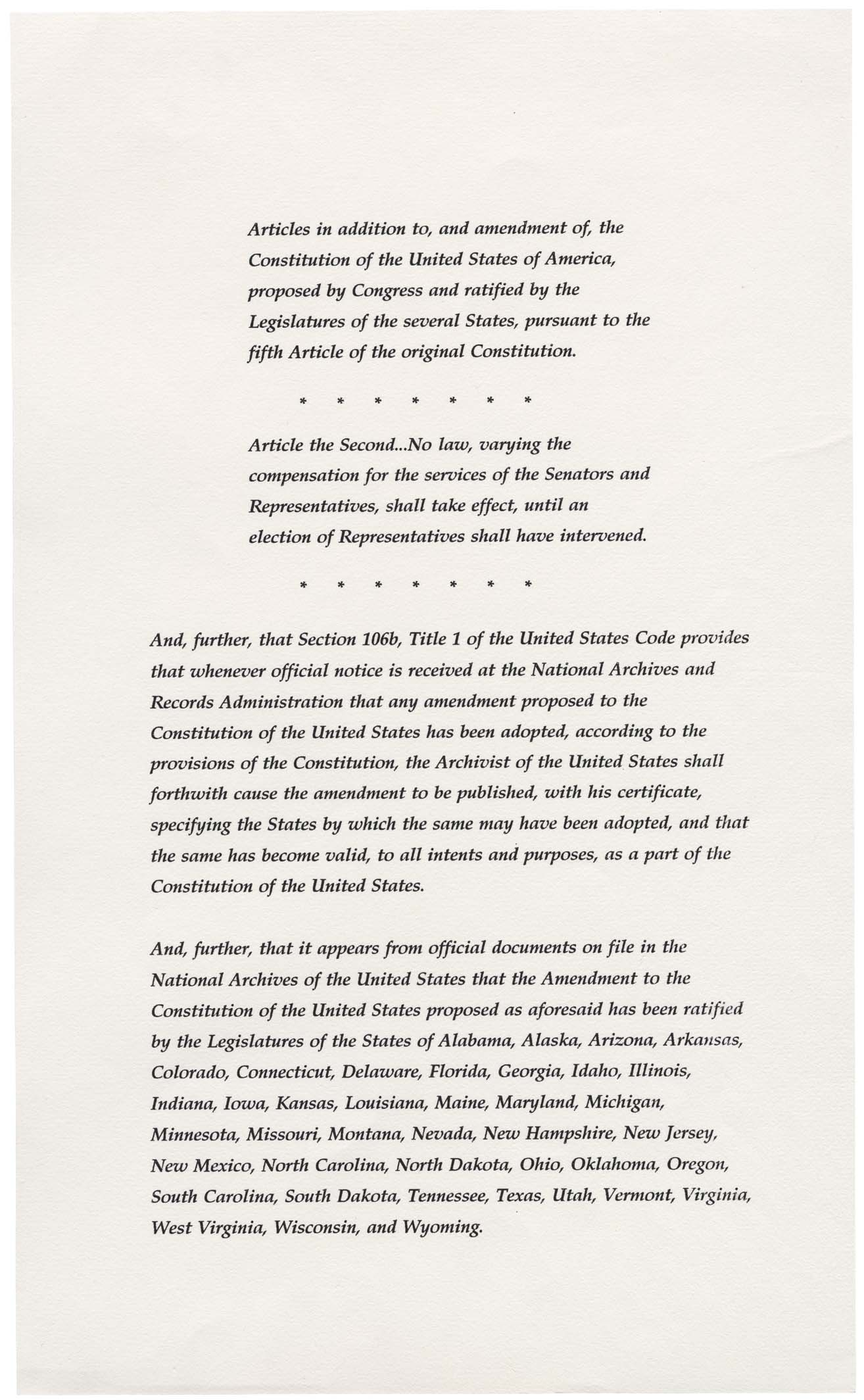 Certification of the Twenty-seventh Amendment to the United States Constitution Pg2of3